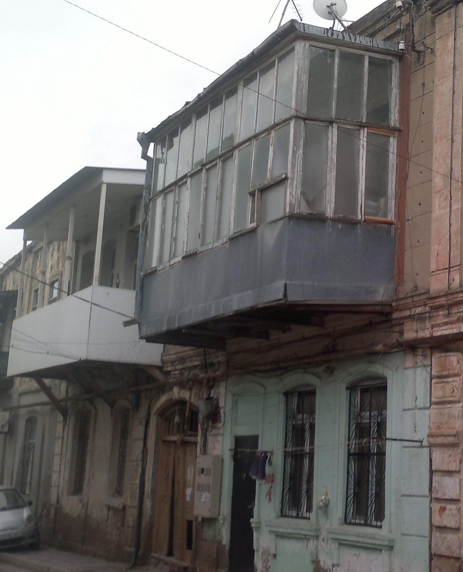 Building on Mirza Fatali Street 75